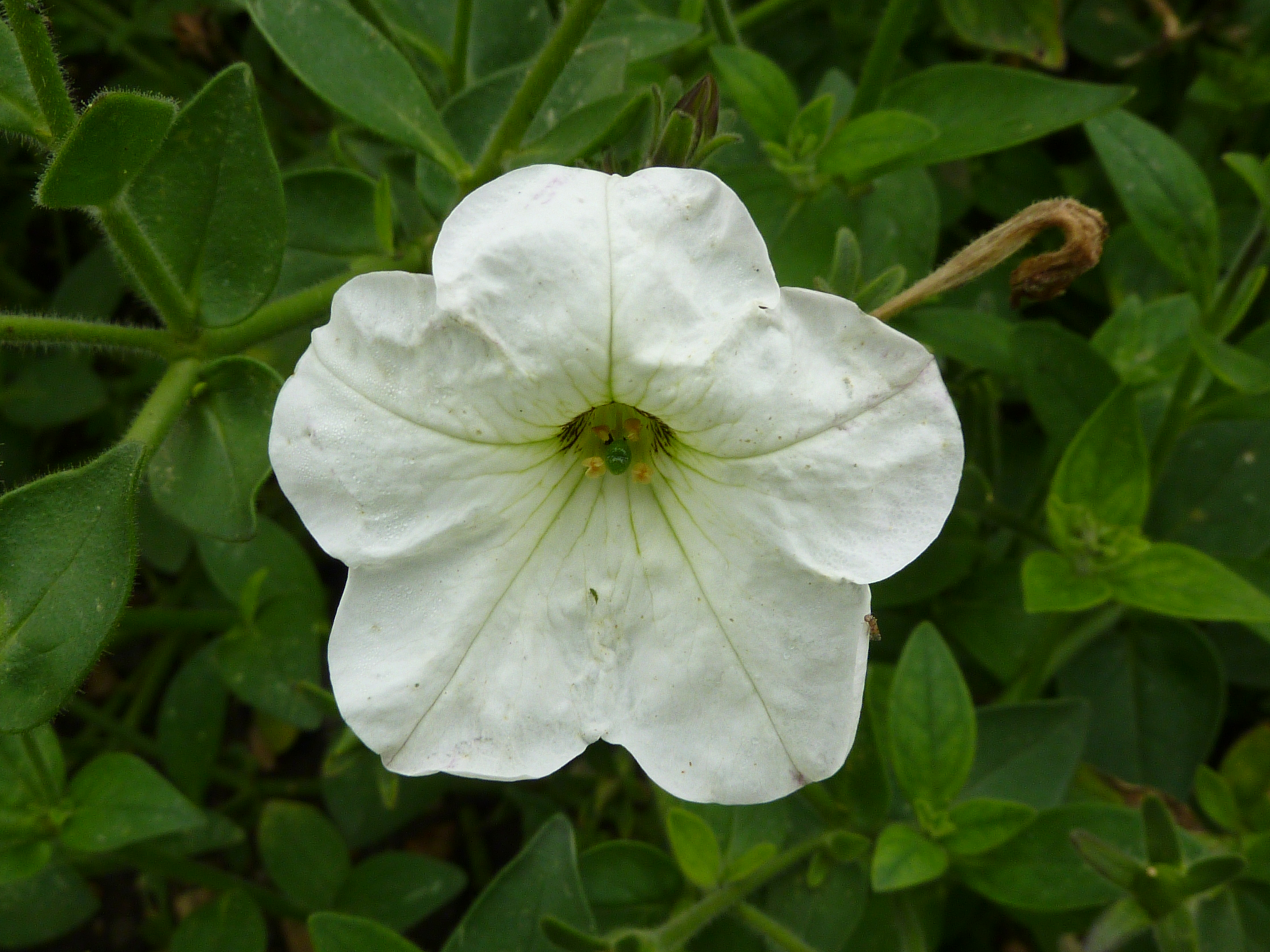 Petunia axillaris, Cambridge University Botanic Garden